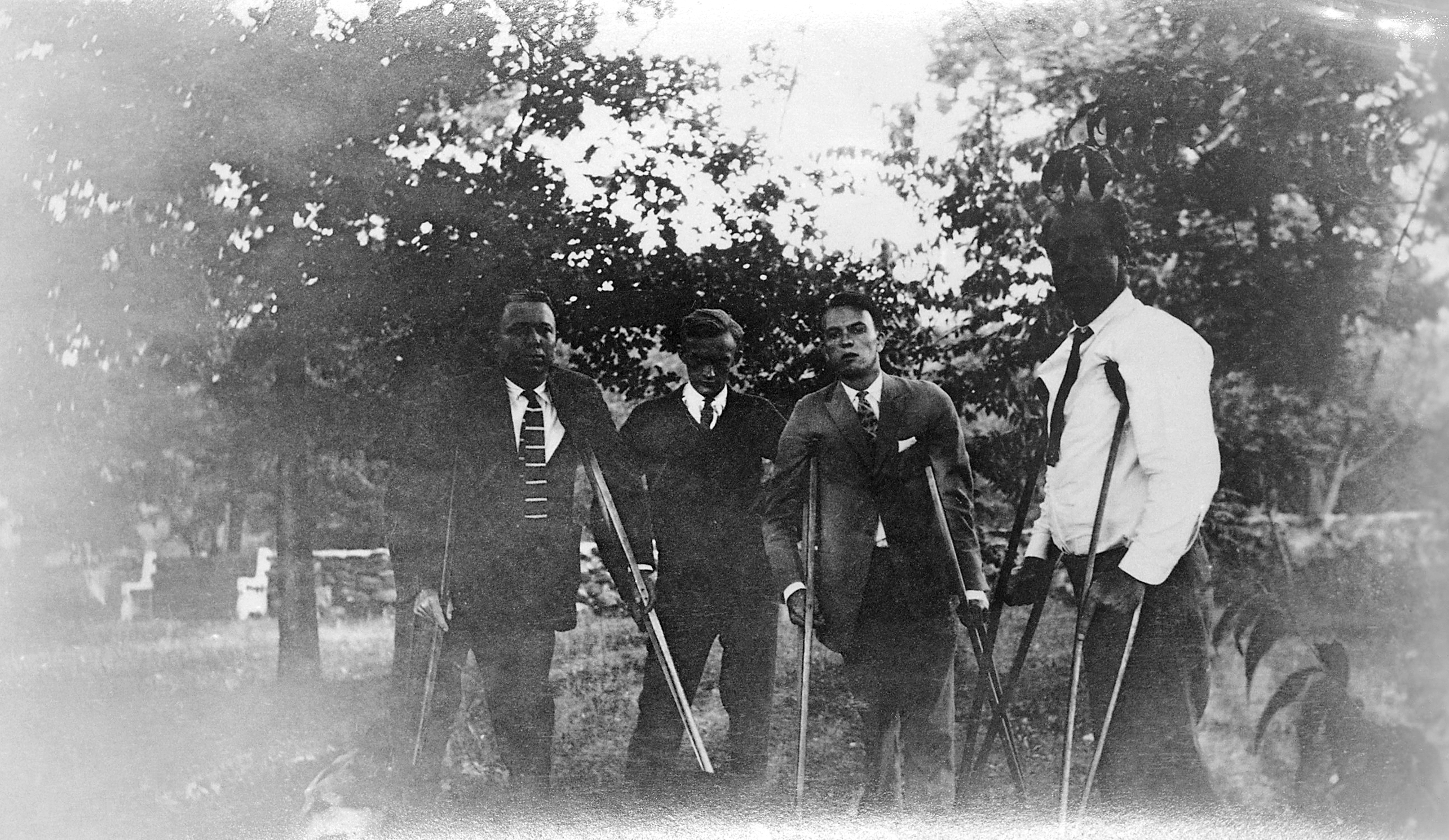 Photograph of Franklin D. Roosevelt (right) with three other polio patients in Warm Springs, Georgia